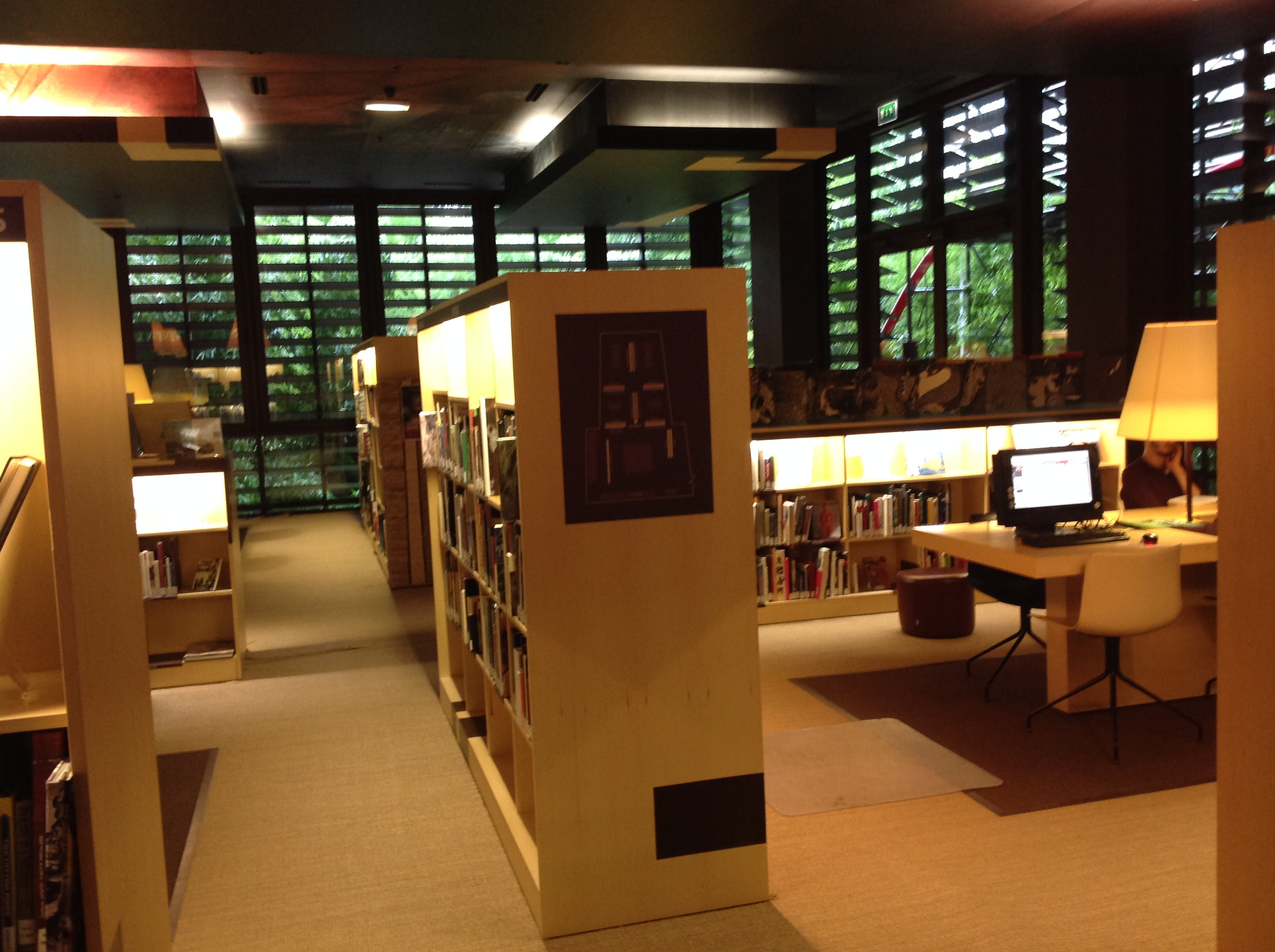 Library of the Musee quai Branly, Paris